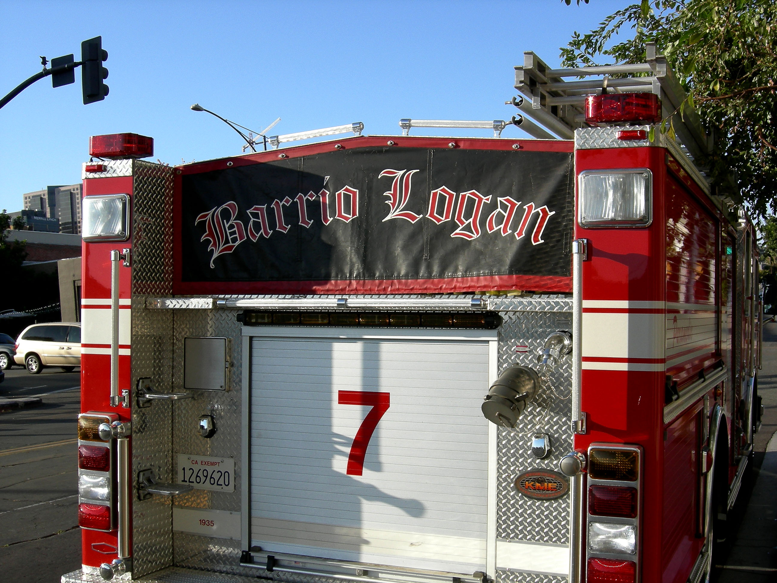 The rear-view of a SDFD truck from Barrio Logan.